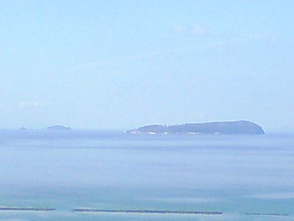 Ibuki Island in Kan'onji, Kagawa, Japan